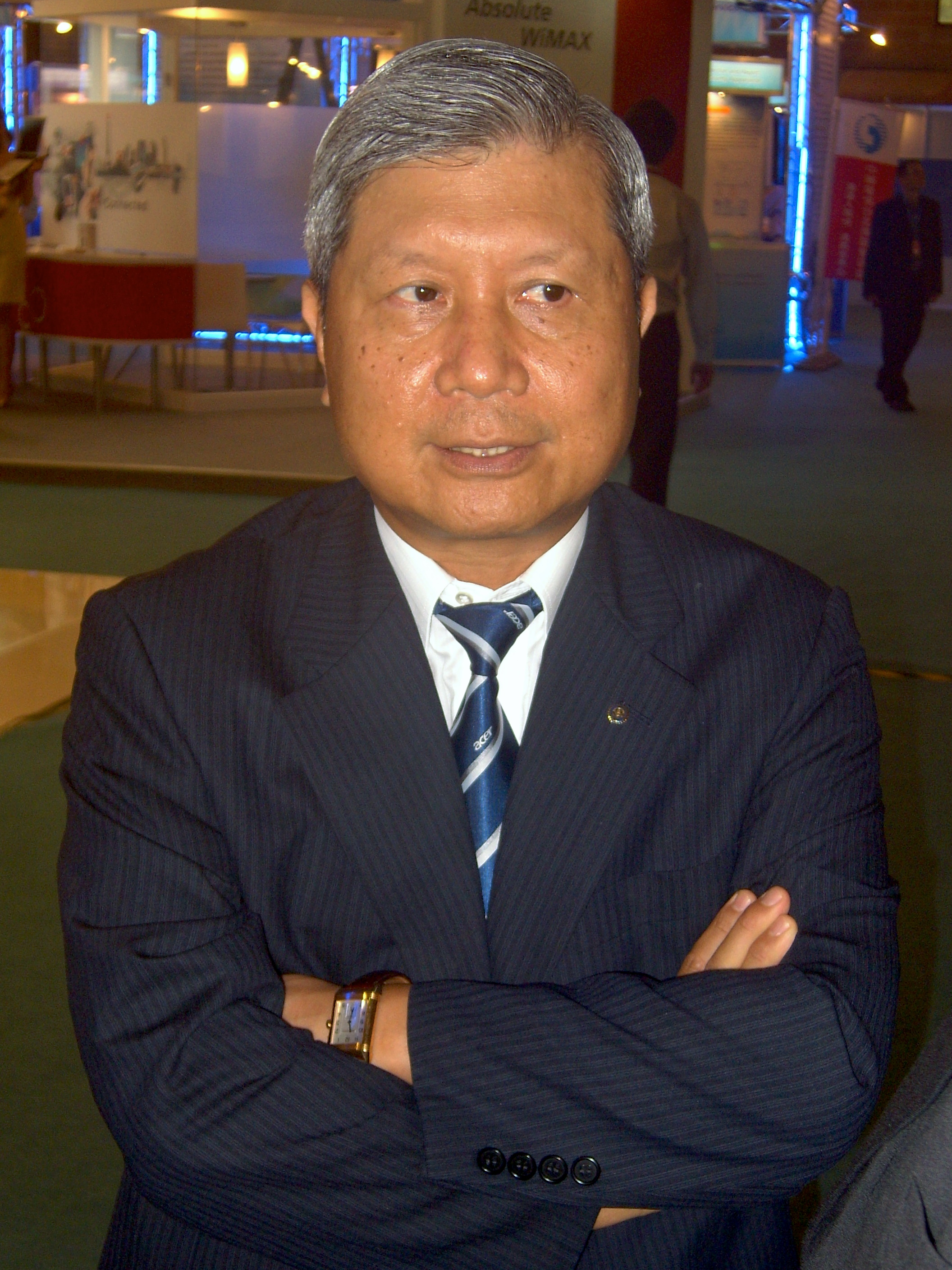 2008 WiMAX Expo Taipei: Jen-tang Wang, Chairman of TCA and Acer.Bân-lâm-gú: Ông Tsín-tông ;Tâi-pak-tshī Tiān-náu Kong-huē lí-sū-tiúnn kah Hông-kî táng-sū-tiúnn; tī nn̄g-tshing khòng peh nî Tâi-pak WiMax tián-lám-huē. 王振堂（臺北市電腦公會理事長佮宏碁董事長）佇2008年臺北WiMax展覽會。